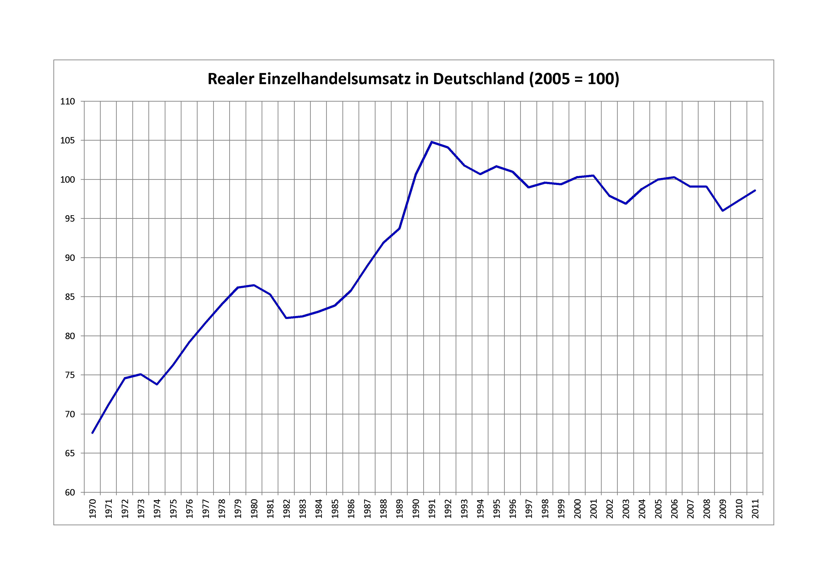 Real retail sales in Germany from 1970 to 2011